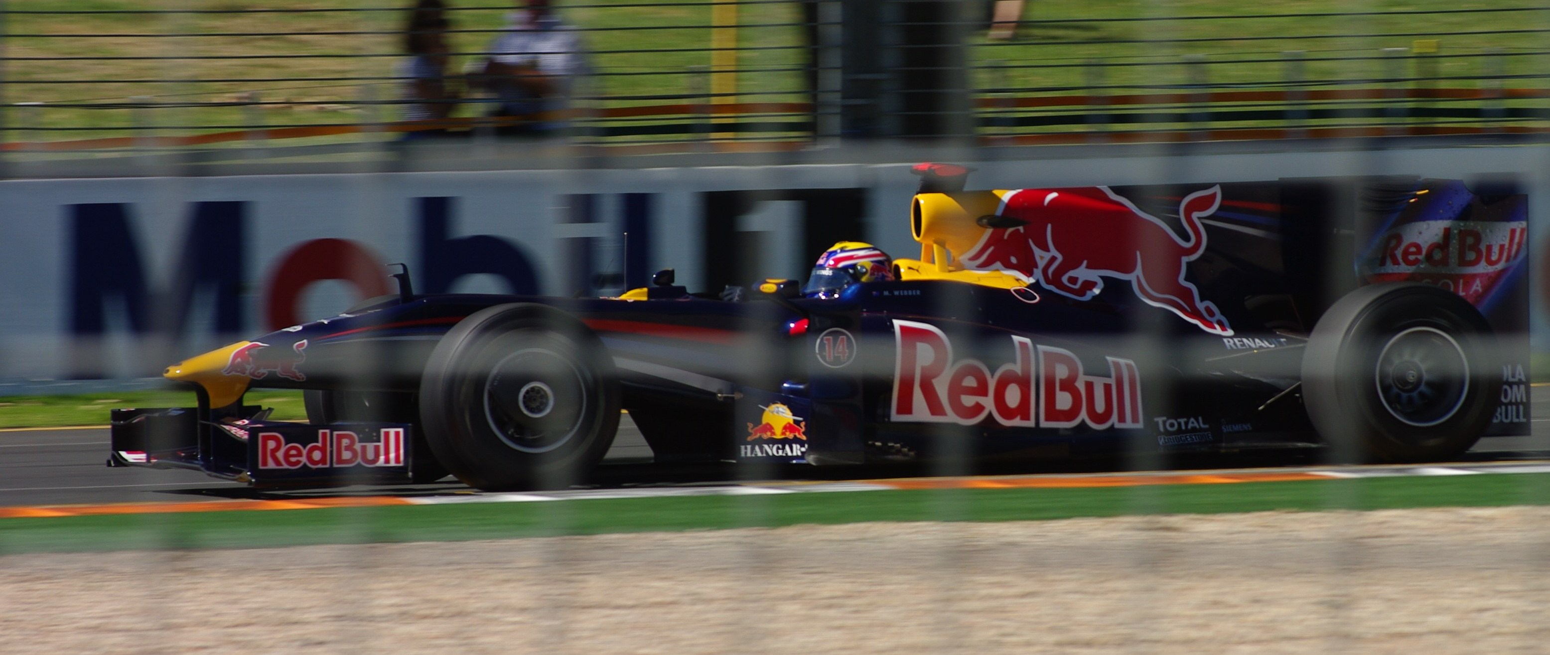 Mark Webber at 2009 Australian Grand Prix, Melbourne, Australia